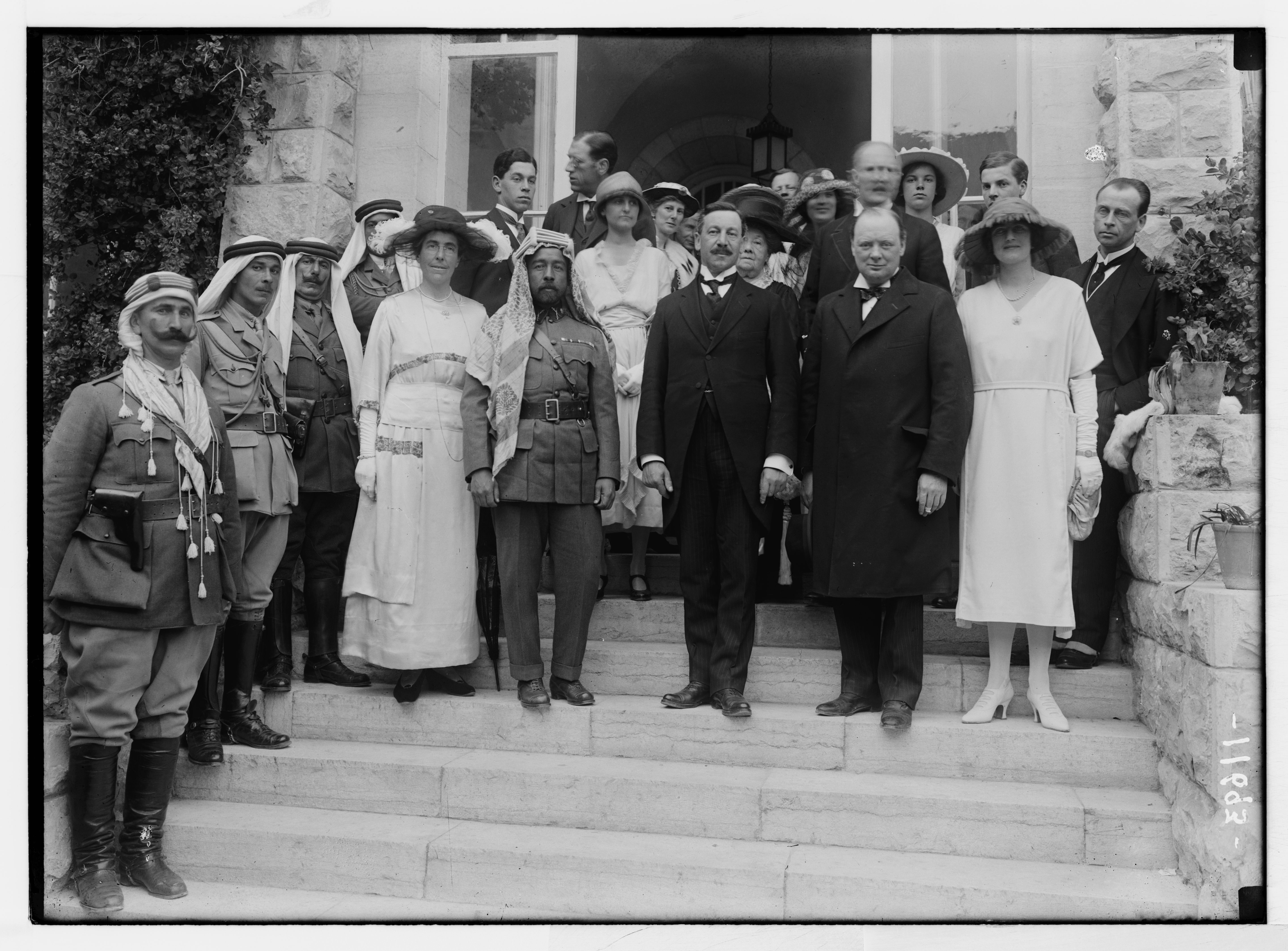 Mr. and Mrs. Winston Churchill at Government House reception on March 28th 1921, Jerusalem with Emir Abdullah of Transjordan and Sir Herbert Samuel on steps at left of Churchill. Churchill, Lawrence & the Emir Abdullah.